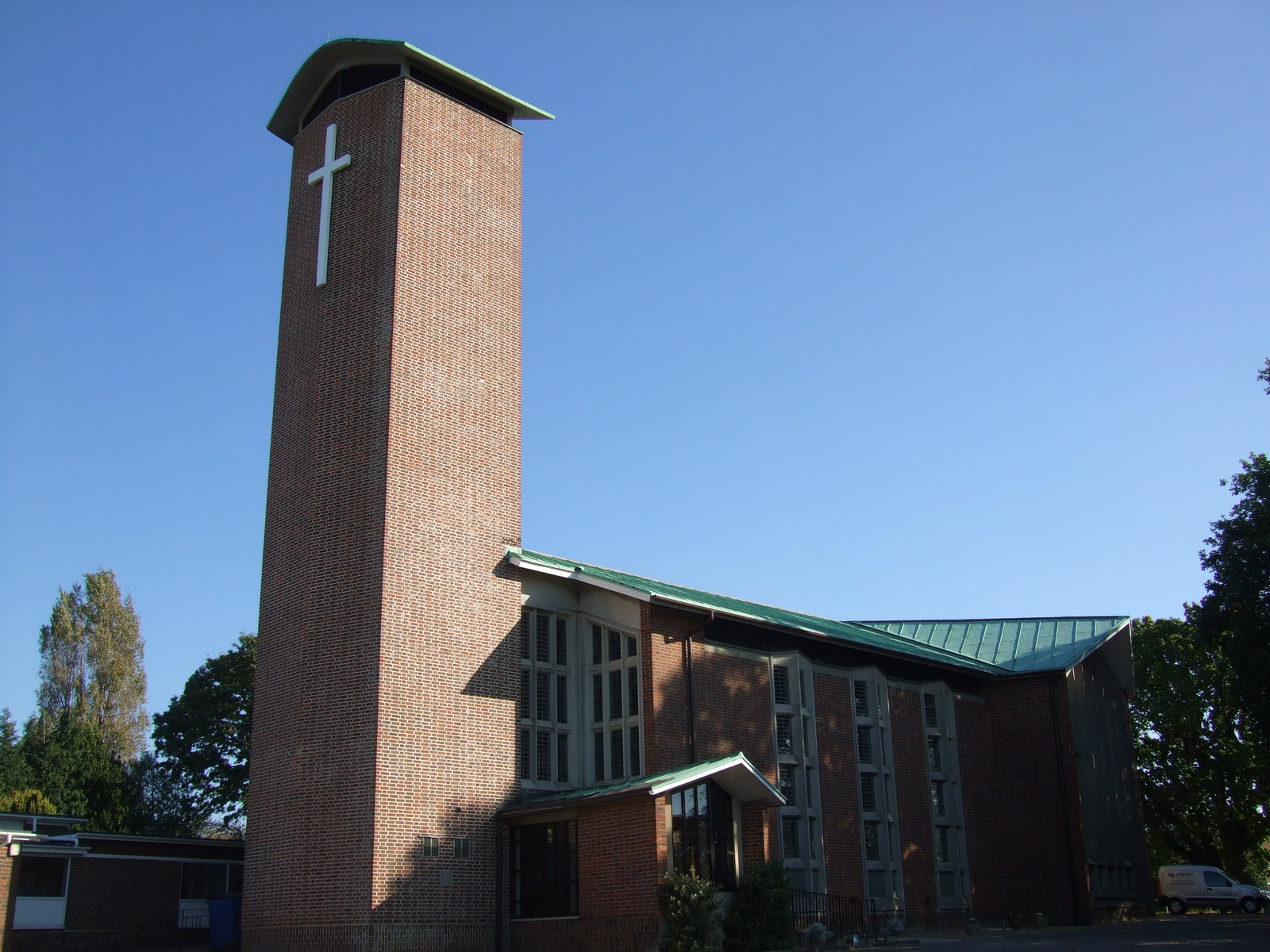 St George's Church in the suburb of Oakdale, Poole